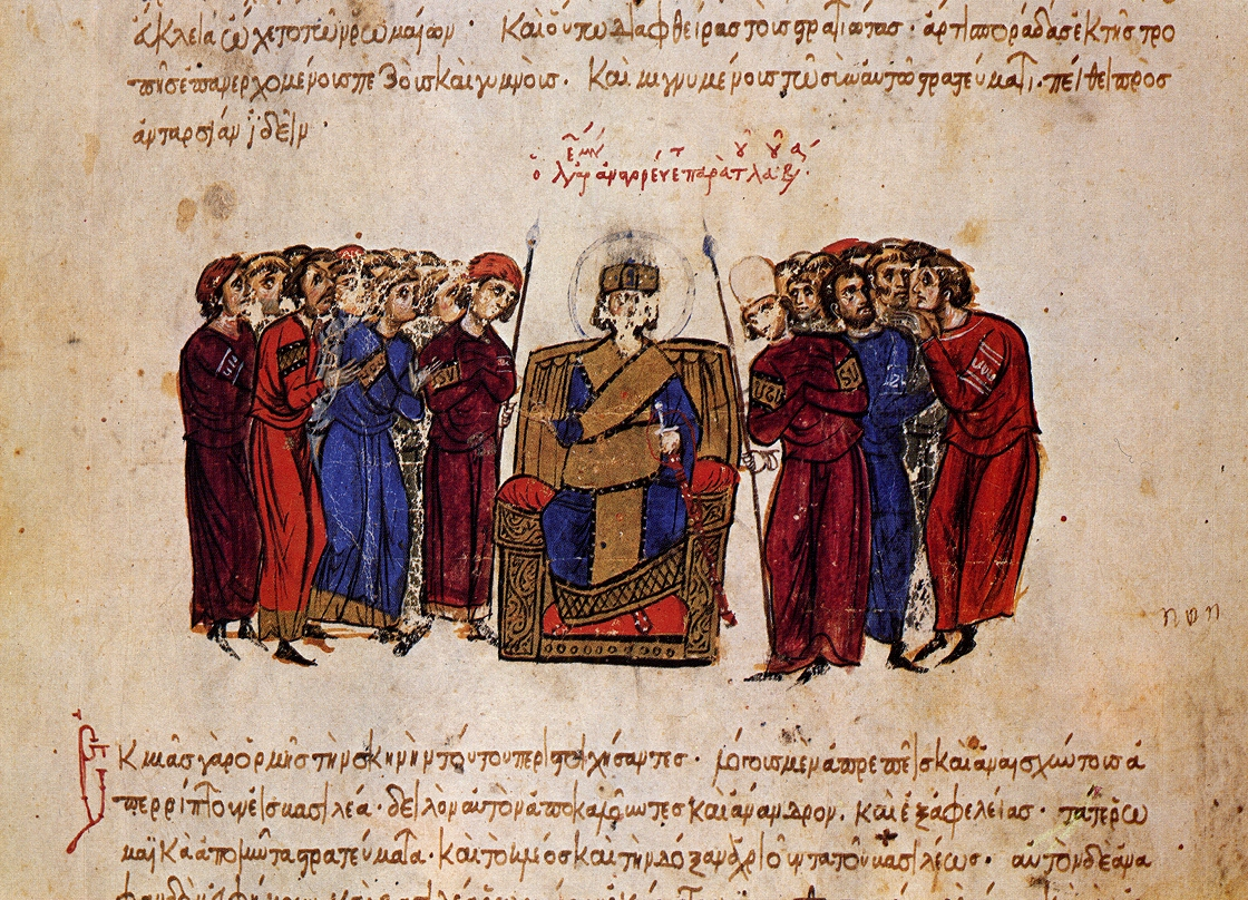 Skyllitzes Matritensis, fol. 12v, detail. Miniature: The proclamation of Emperor Leo V the Armenian. References: Ioannis Scylitzae Synopsis Historiarum. Editio Princeps. Rec. Ioannes Thurn, p. 6-7, in: Corpus Fontium Historiae Byzantinae 5 Series Berolinensis, 1973 Tsamakda V.: The illustrated chronicle of Ioannes Skylitzes in Madrid, p. 48